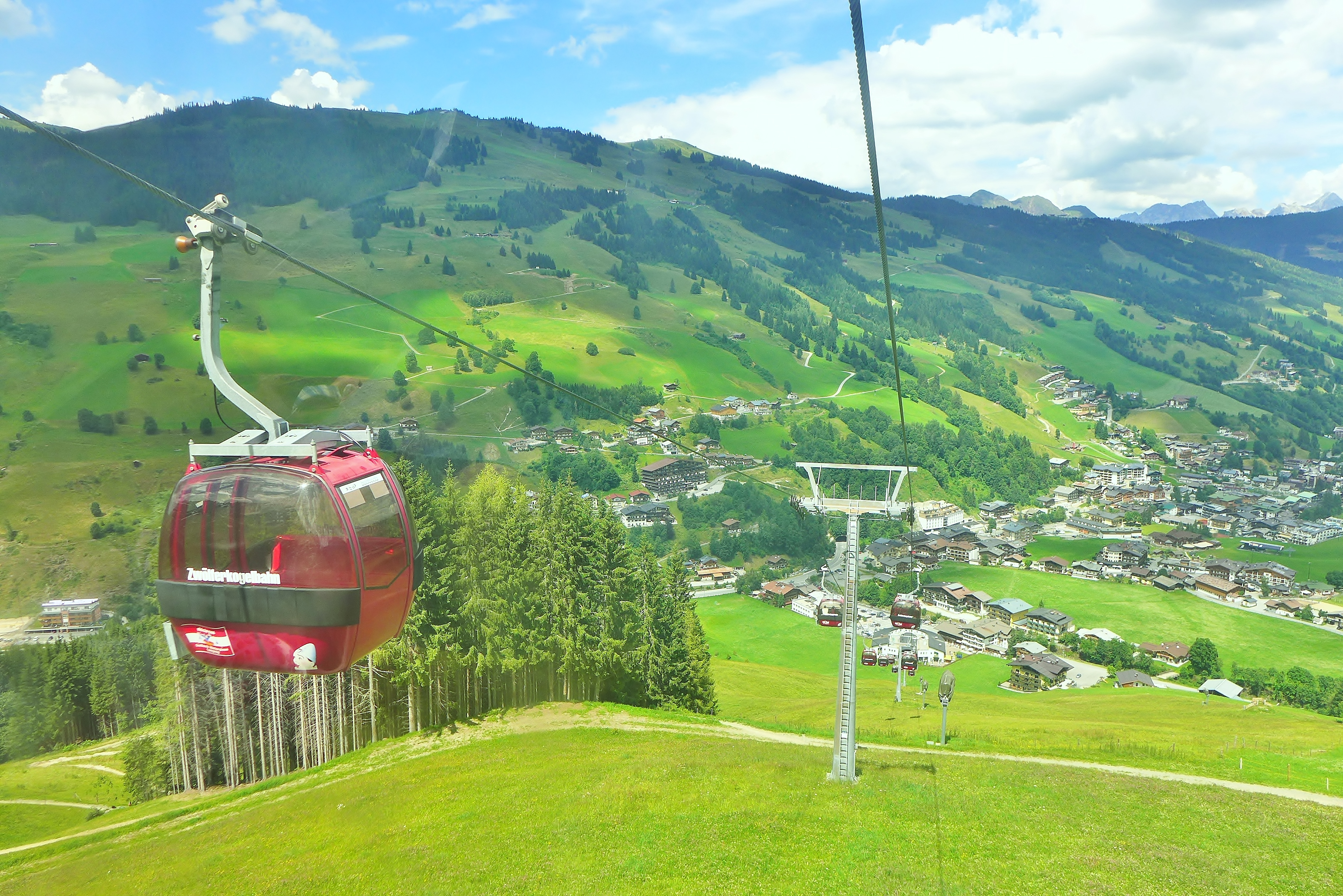 View from a cable car on the Zwölferkogelbahn as it heads up the Zwölferkogel from the Talstation in Hinterglemm, Salzburg (state), Austria.